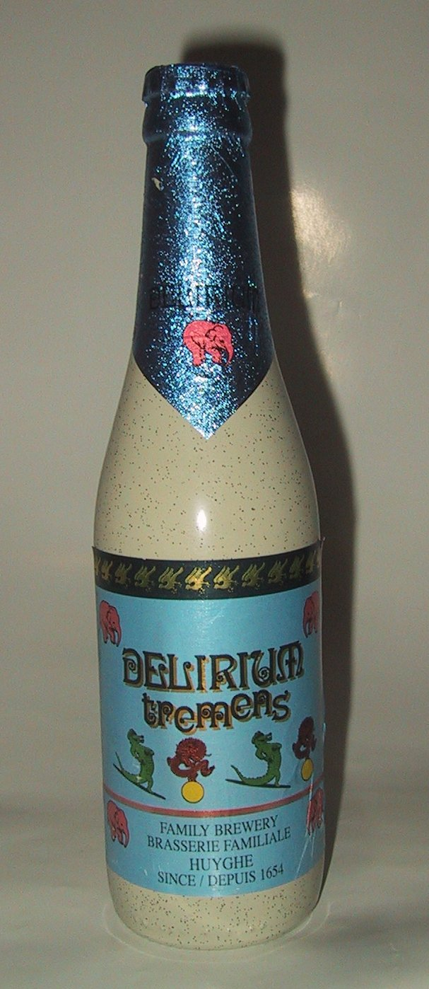 Delirium Tremens beer (Français)